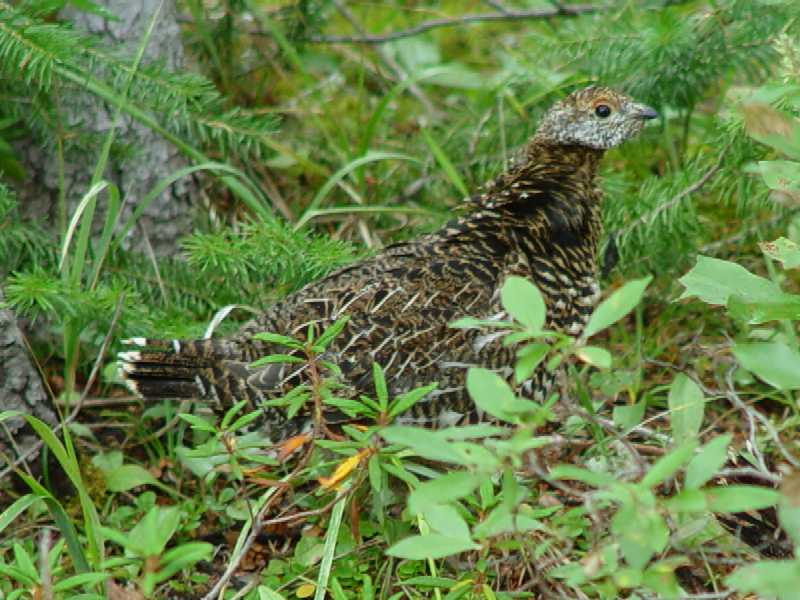 Location : Lake Louise - Banff National Park - Alberta, Canada